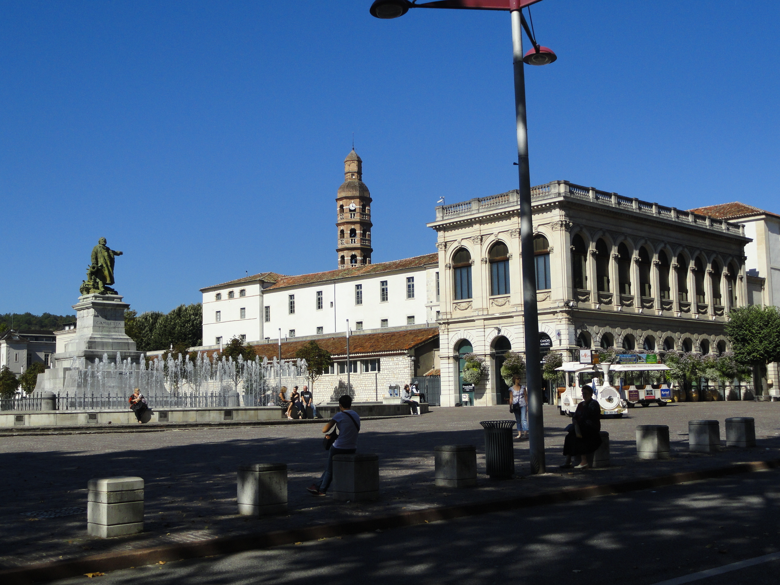 Place François Mitterand and statue of Gambetta Photo taken by myself on September 24, 2013